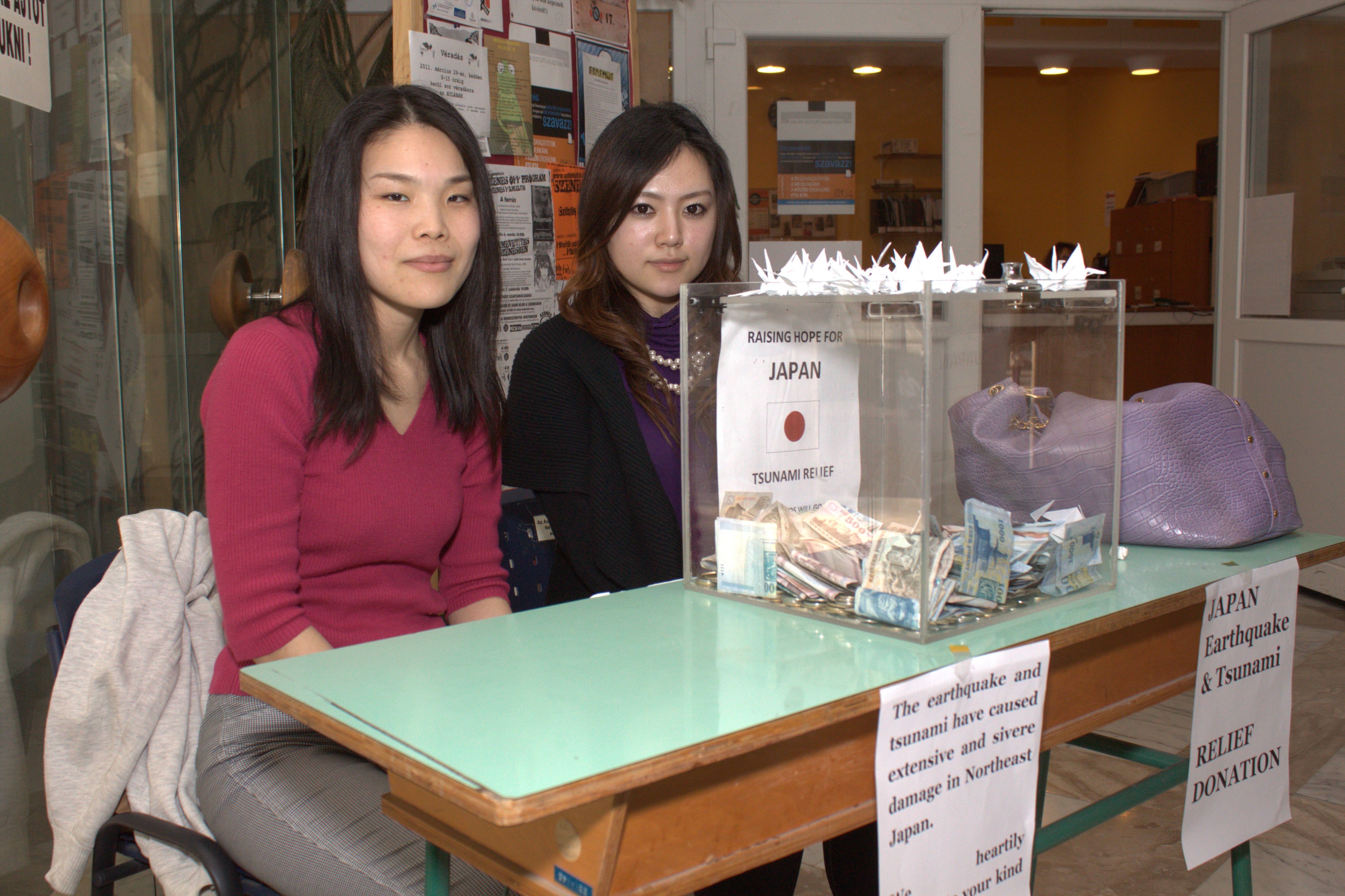 Japanese students collecting funds for the victims of the 2011 Tōhoku earthquake and tsunami at the University of Pécs, Hungary